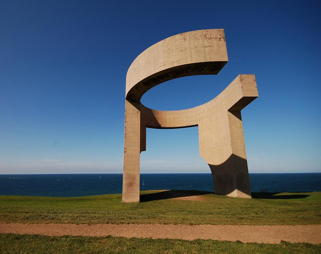 This monumental sculpture by Eduardo Chillida has become one of the tokens of Gijón.